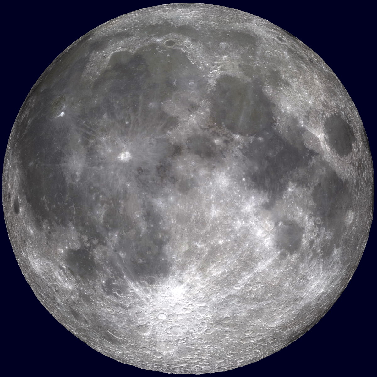 Near side lunar phase image set rendered by Jay Tanner - 2014. Size : 1200x1200 pixels Format : JPEG Author : Jay Tanner - 2014 License : These images are released under the provisions of the Creative Commons Attribution-ShareAlike 3.0 license. The image set consists of 361 images of the geocentric moon with 3D relief at 1-degree intervals of phase measured positively counterclockwise around the sky, eastward, from 0 to 360 degrees. Quarter Phase Legend: New Moon = 0/360 degrees First Quarter = 90 Full Moon = 180 Last Quarter = 270